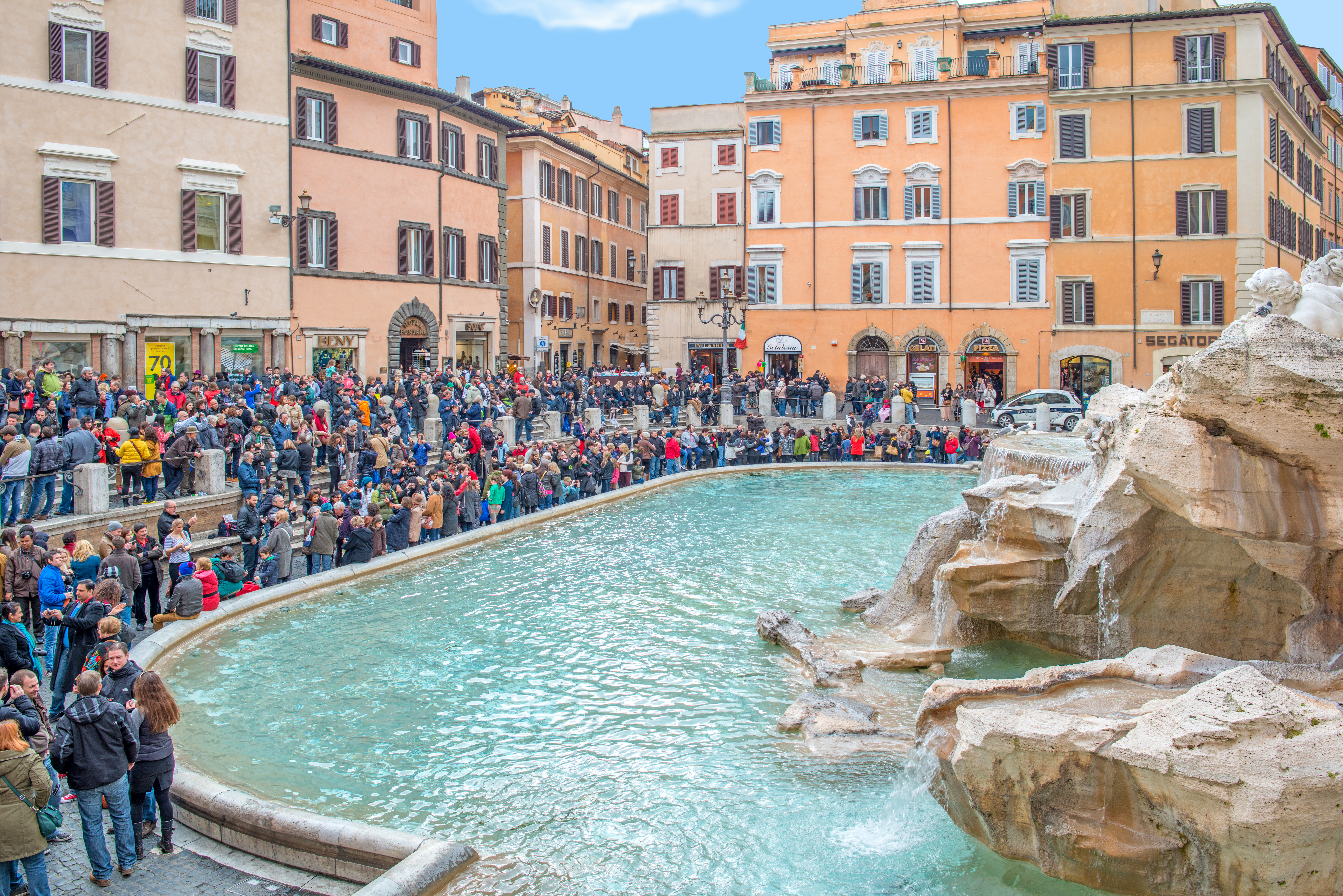 Fontana di Trevi Rome Italy February 2013